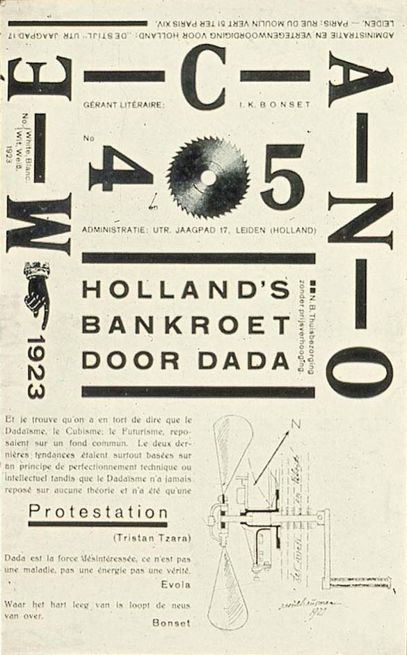 Mécano no. 4/5